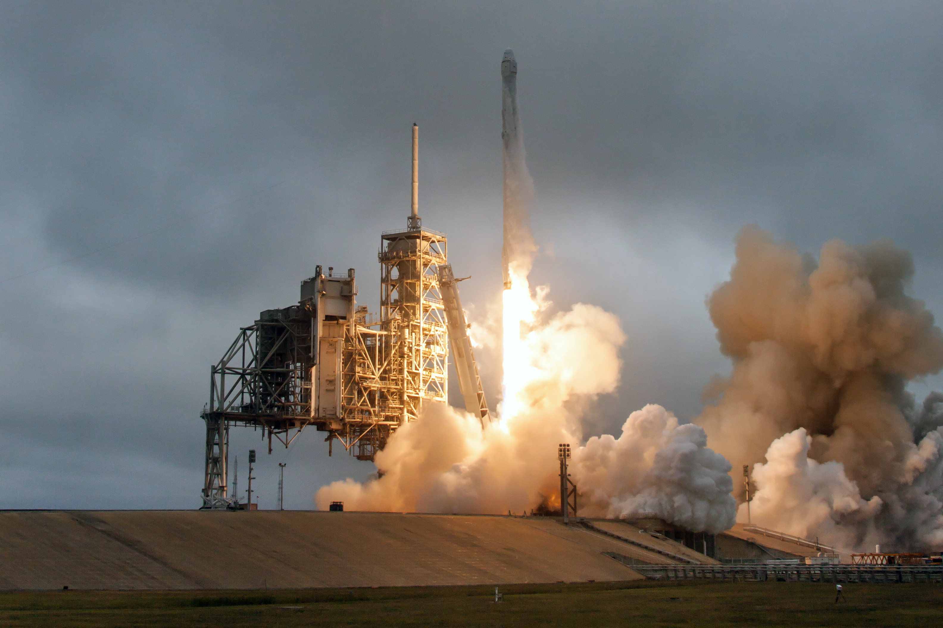 Falcon 9 and Dragon lift off from Launch Pad 39A for CRS-10